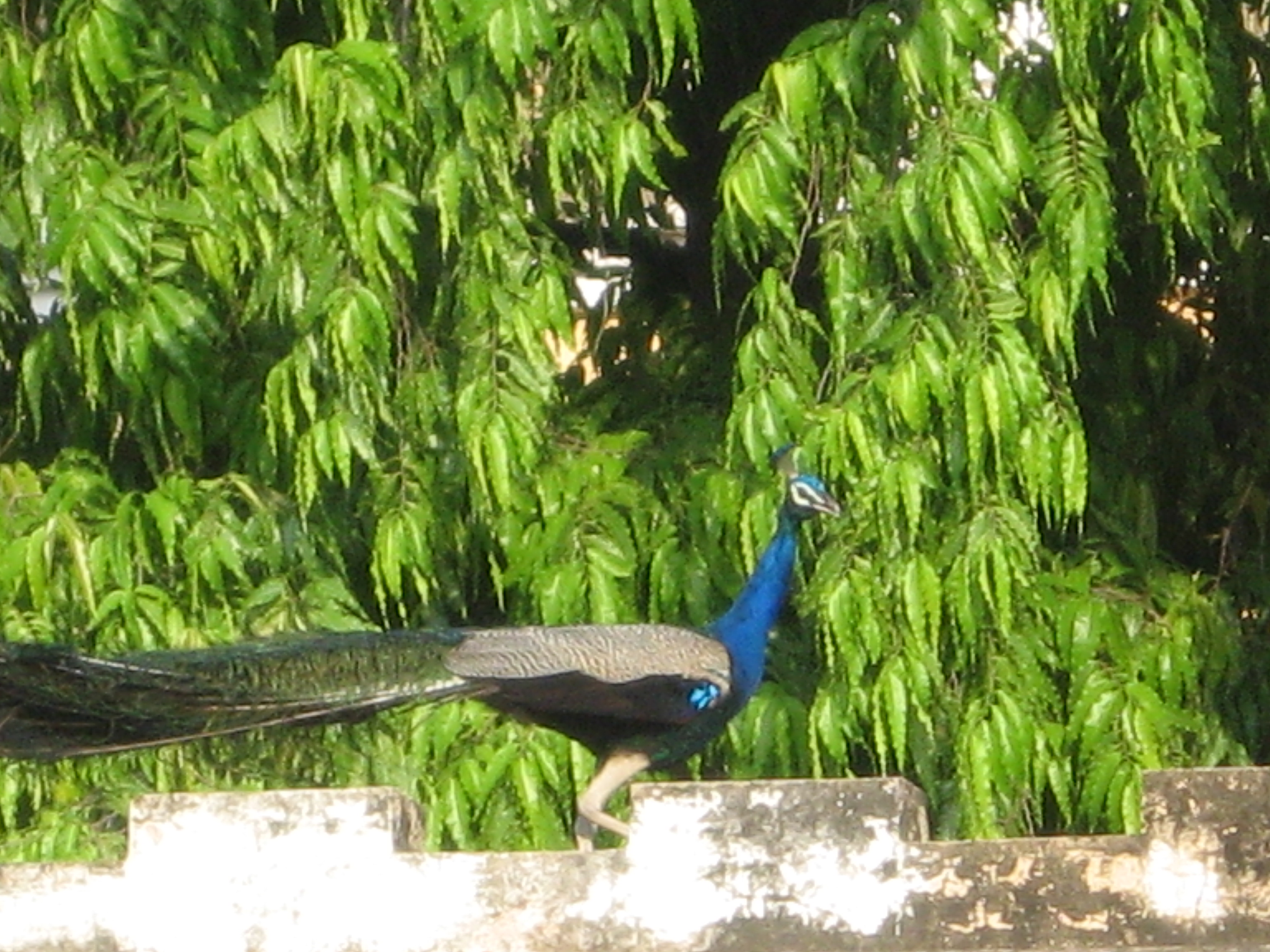 A Peacock seen in the residential areas of Dayalbagh. It is Considered to be one of the most commonly found creatures in Dayalbagh.